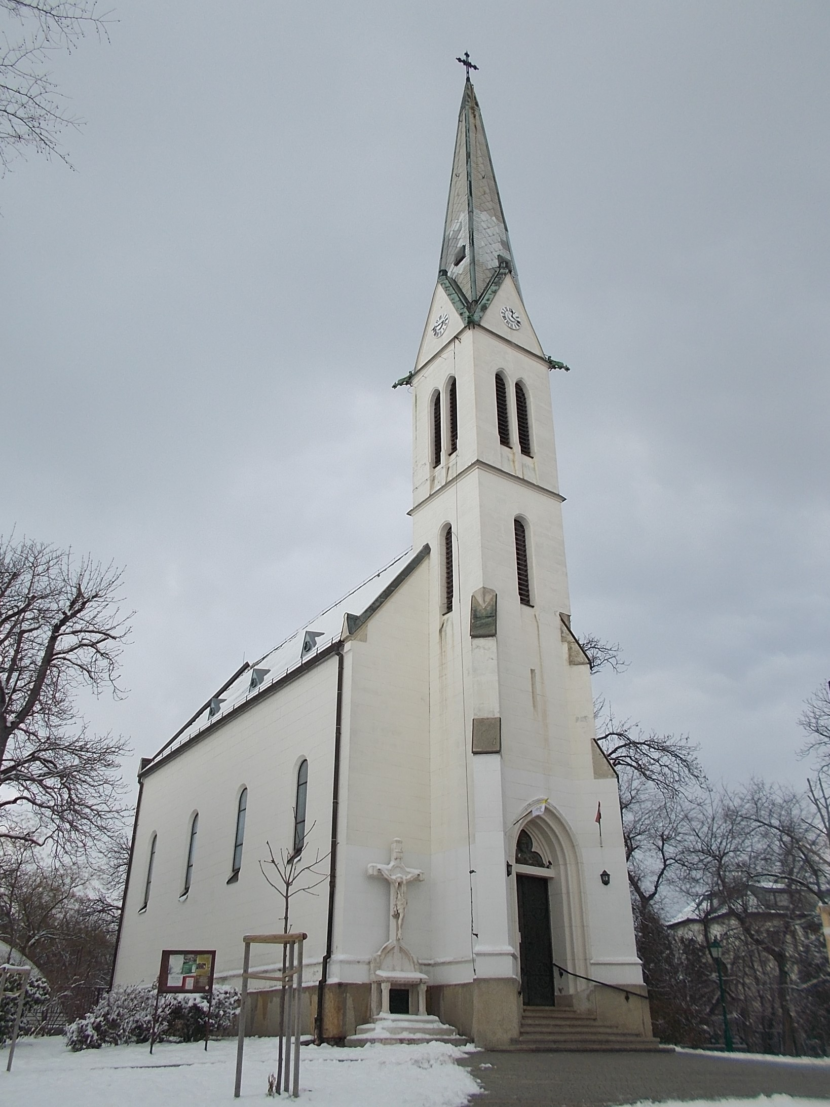 Saint Ladislaus Church built to chapel in 1860 planned by Romano von Ringe partly/maybe Miklós Ybl, in 1866 remodelled to church, extended in 1886 by Ferenc Pfaff . - 15/A Diana utca, Istenhegy, 12th district of Budapest.